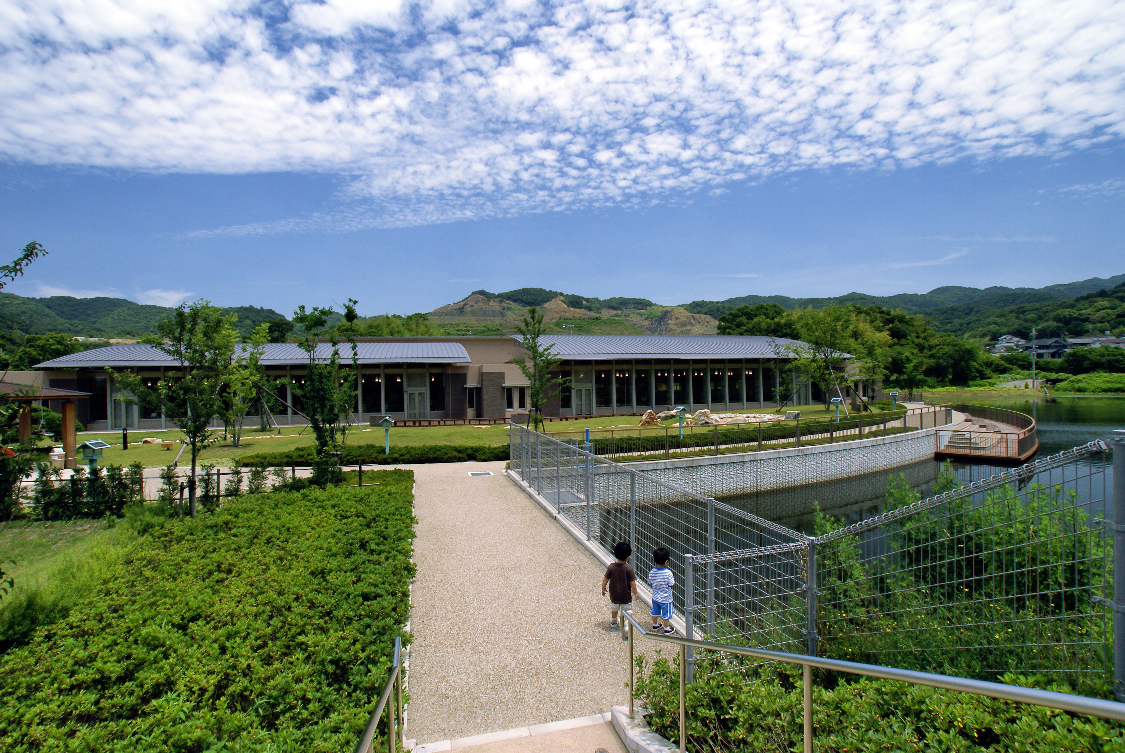 Iwade Municipal Library in Iwade, Wakayama prefecture, Japan